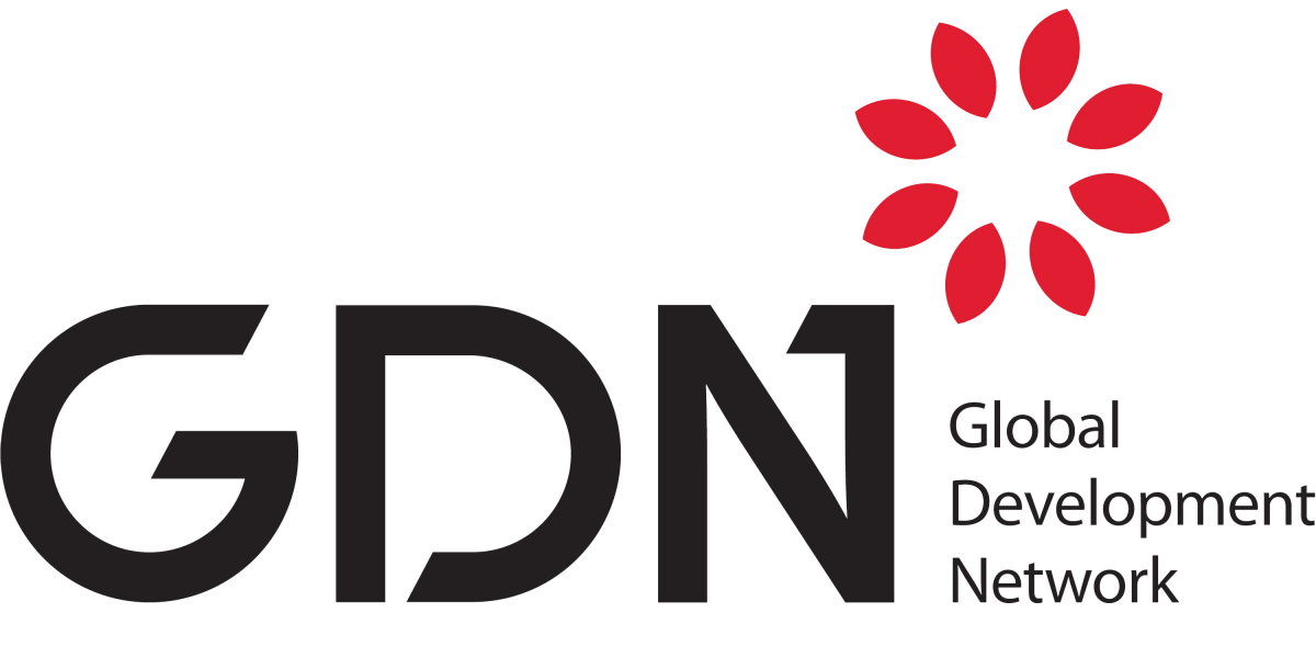 Logo of GDN